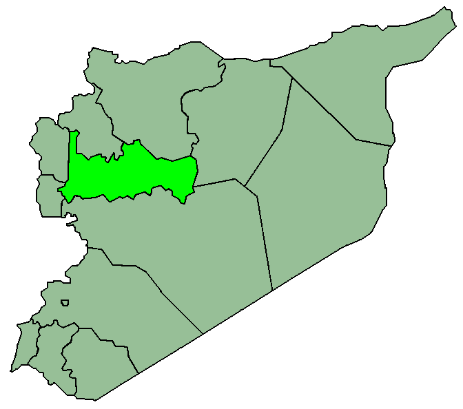 The Syrian governorate of Hama.